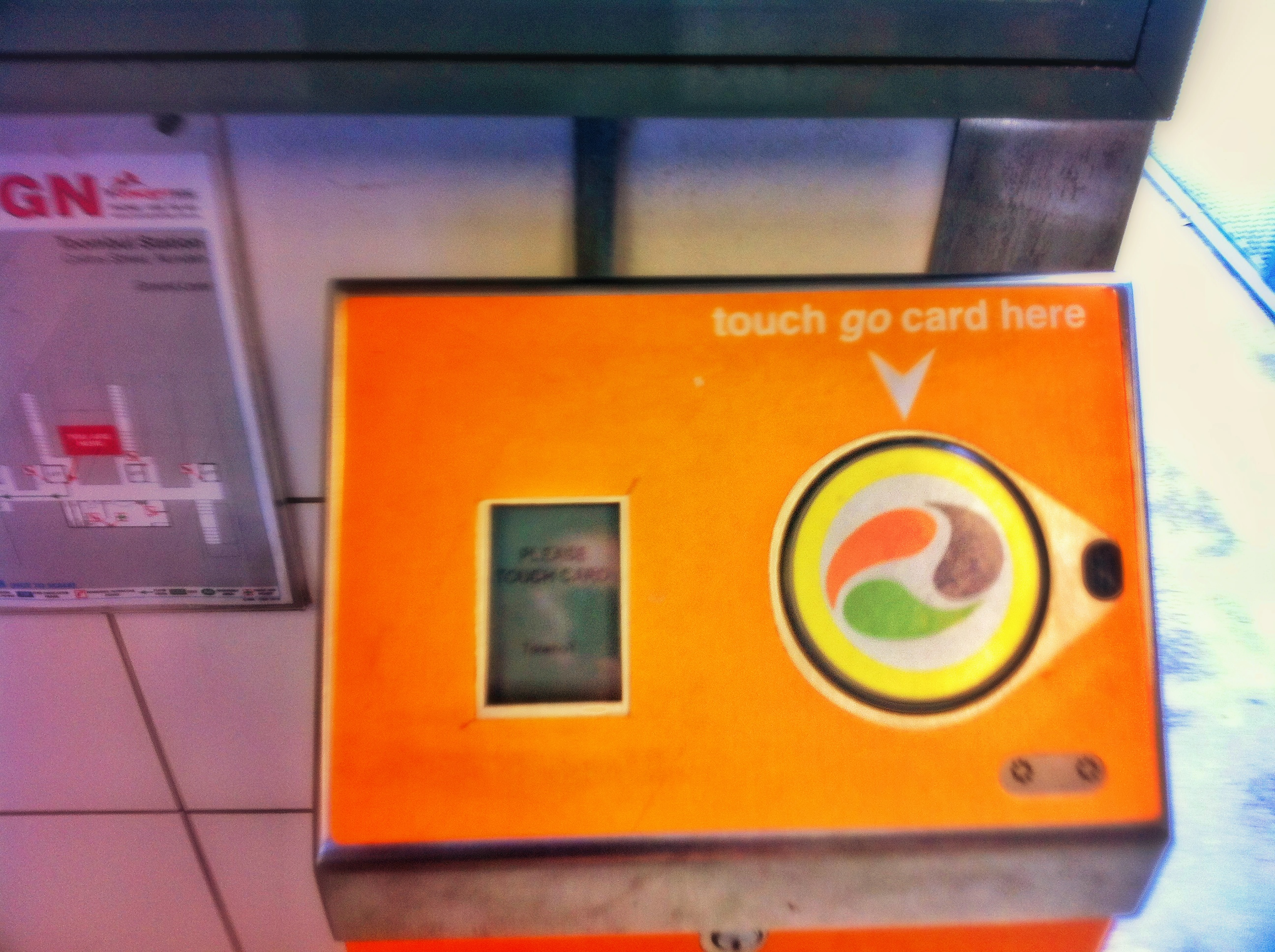 A GoCard reader for Translink at Toombul Train station